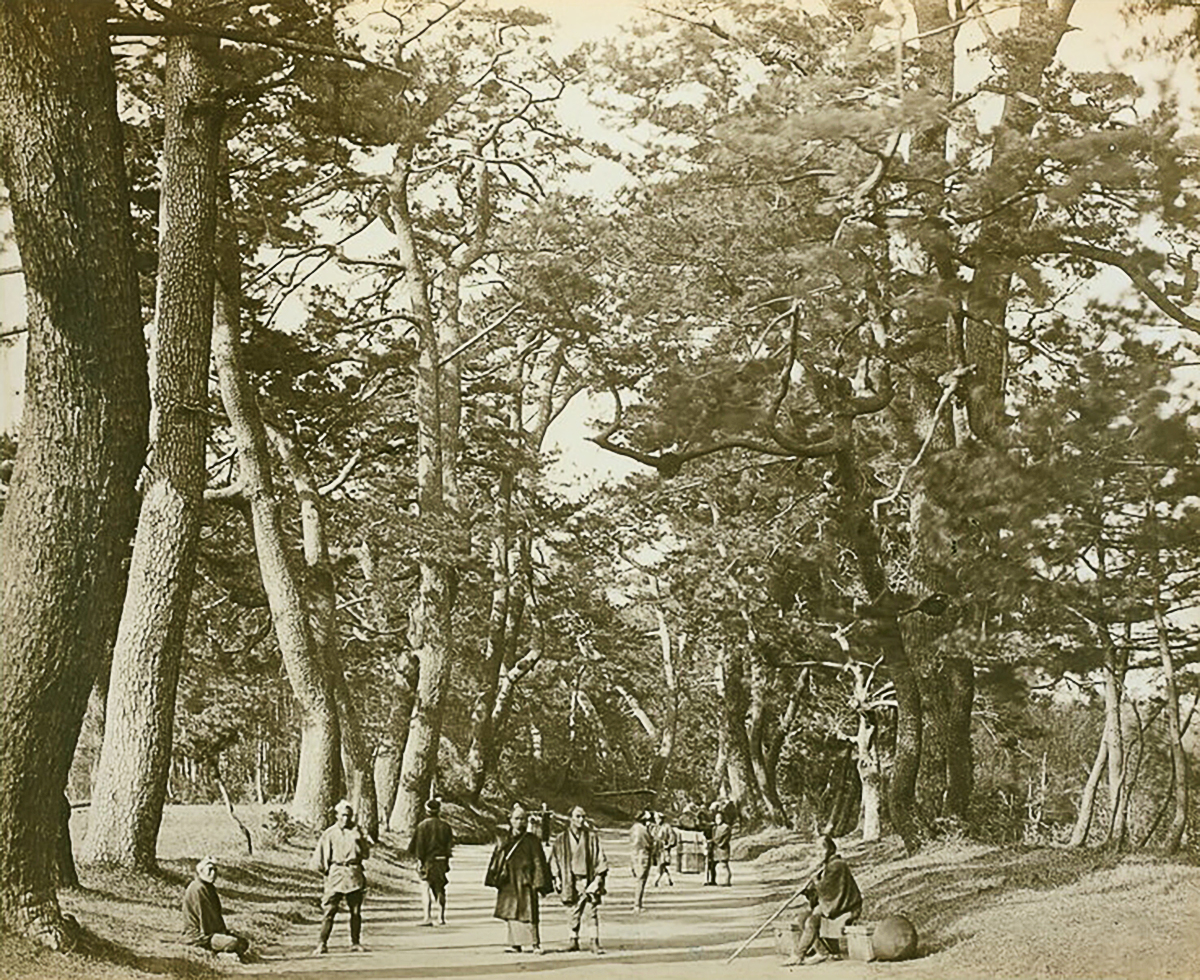 Author: Felice Beato An ancient Japanese highway.